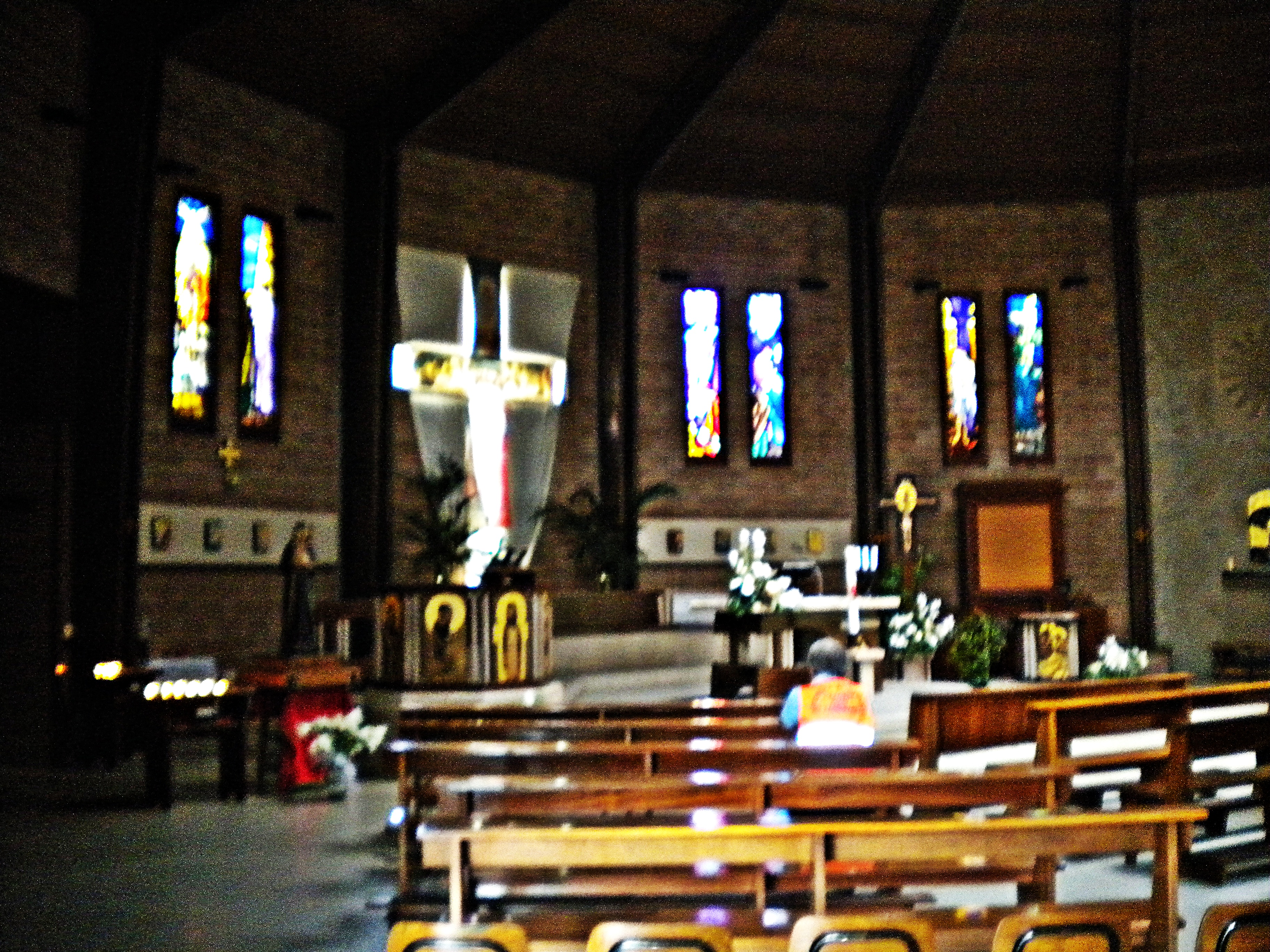 inside